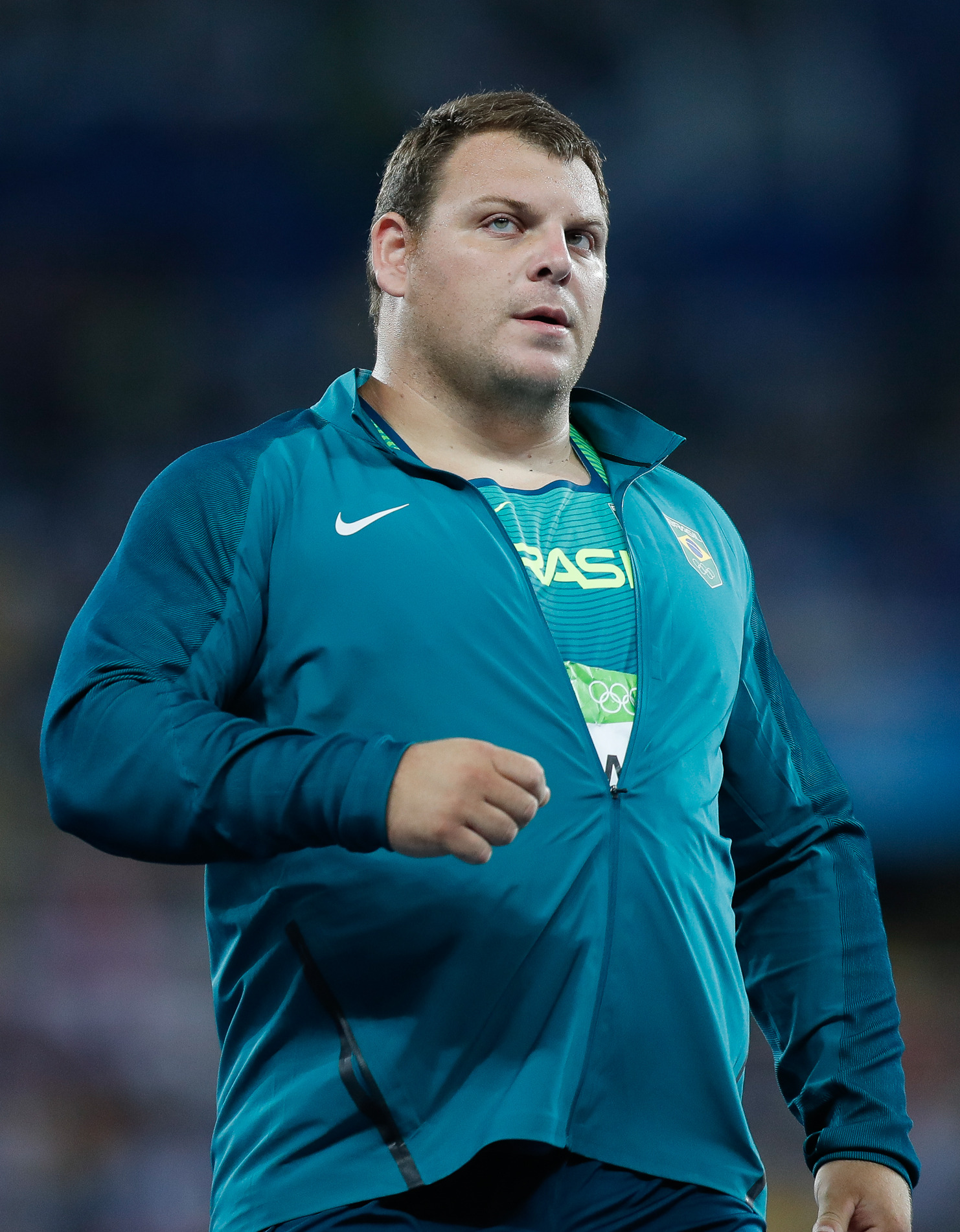 Rio de Janeiro - Brasileiro Darlan Romani termina em 5º no arremesso de peso nos Jogos Rio 2016, no Estádio Olímpico. (Fernando Frazão/Agência Brasil)